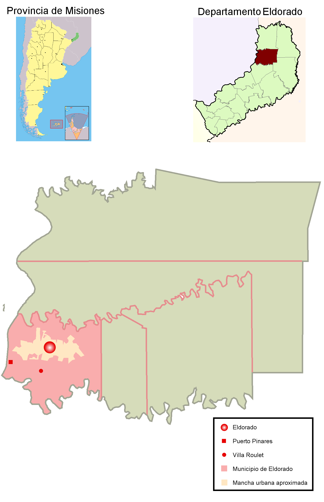 A map showing municipio of Eldorado in Eldorado departament, Misiones province, Argentina. Also shows Eldorado town location, its urban sector, Puerto Pinares town location and Villa Roulet location. Created with GIMP.